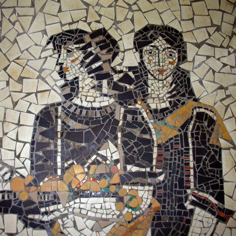 Mosaic